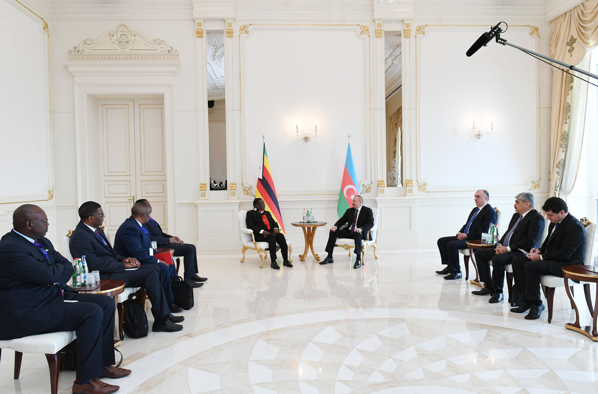 Ilham Aliyev met with Zimbabwe President Emmerson Mnangagwa